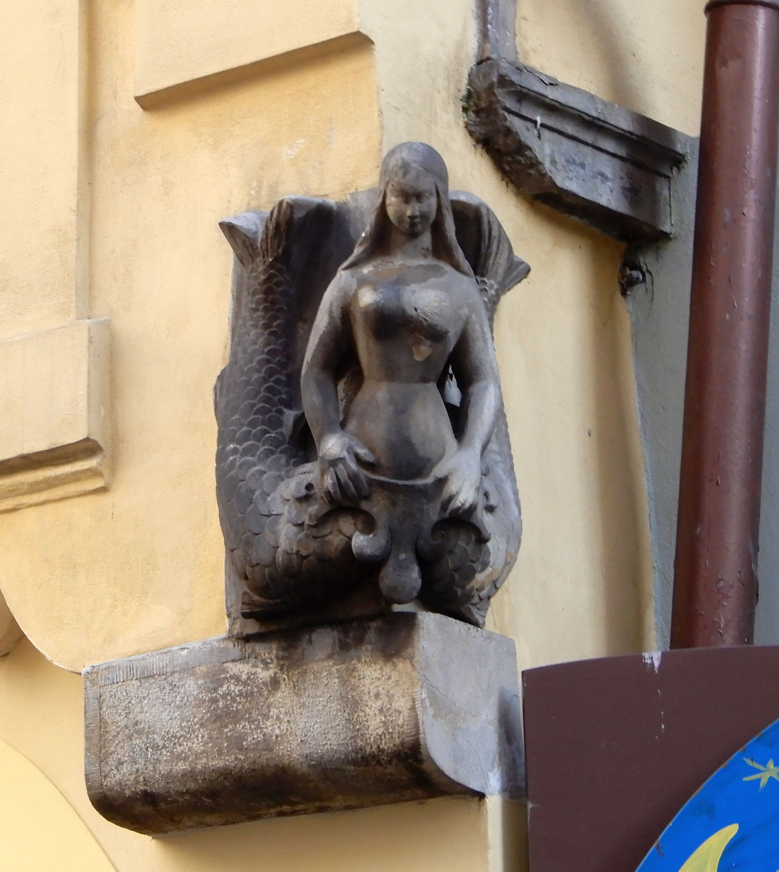 House sign " Stoned siren", Karlova street No. 183-I, Prague - Old Town